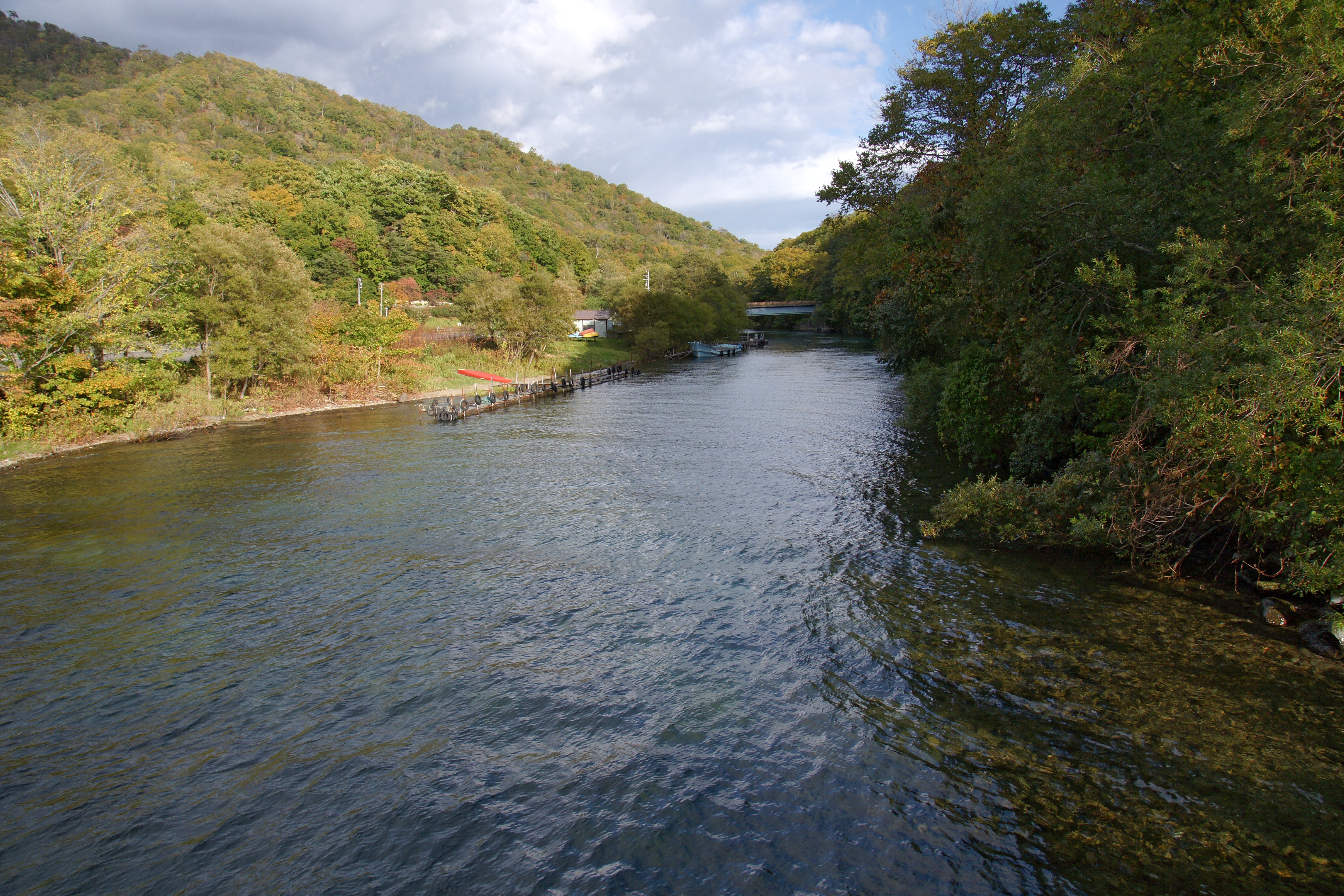 Chitose River, Chitose, Hokkaido prefecture, Japan